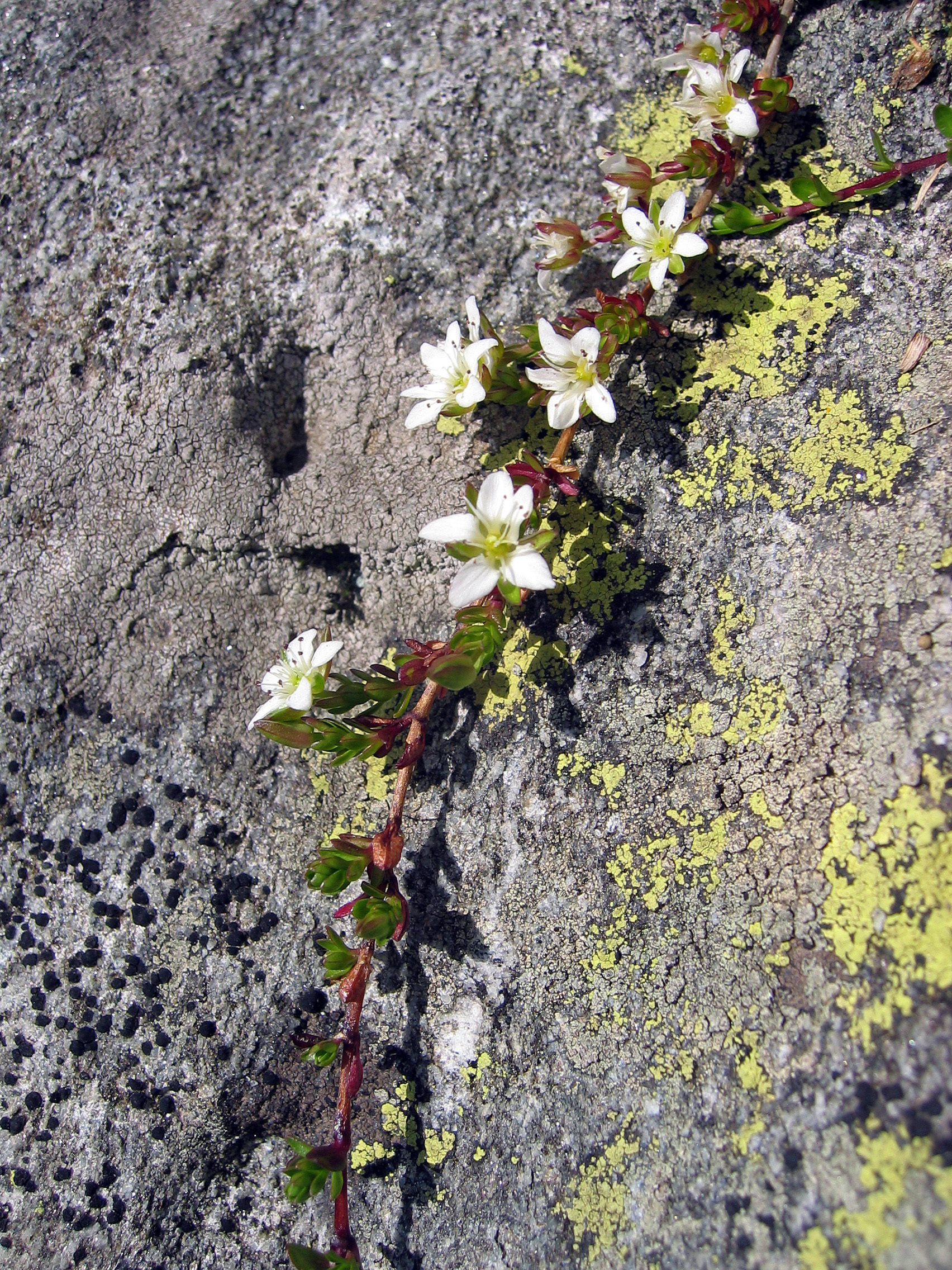 Arenaria biflora, Grieskogel ~2600m, Salzburg, Austria on Paragneis